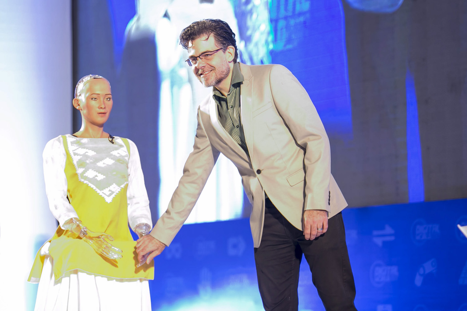 Sophia with her creator David Hanson at Digital World 2017 conference, Dhaka, Bangladesh in December 2017